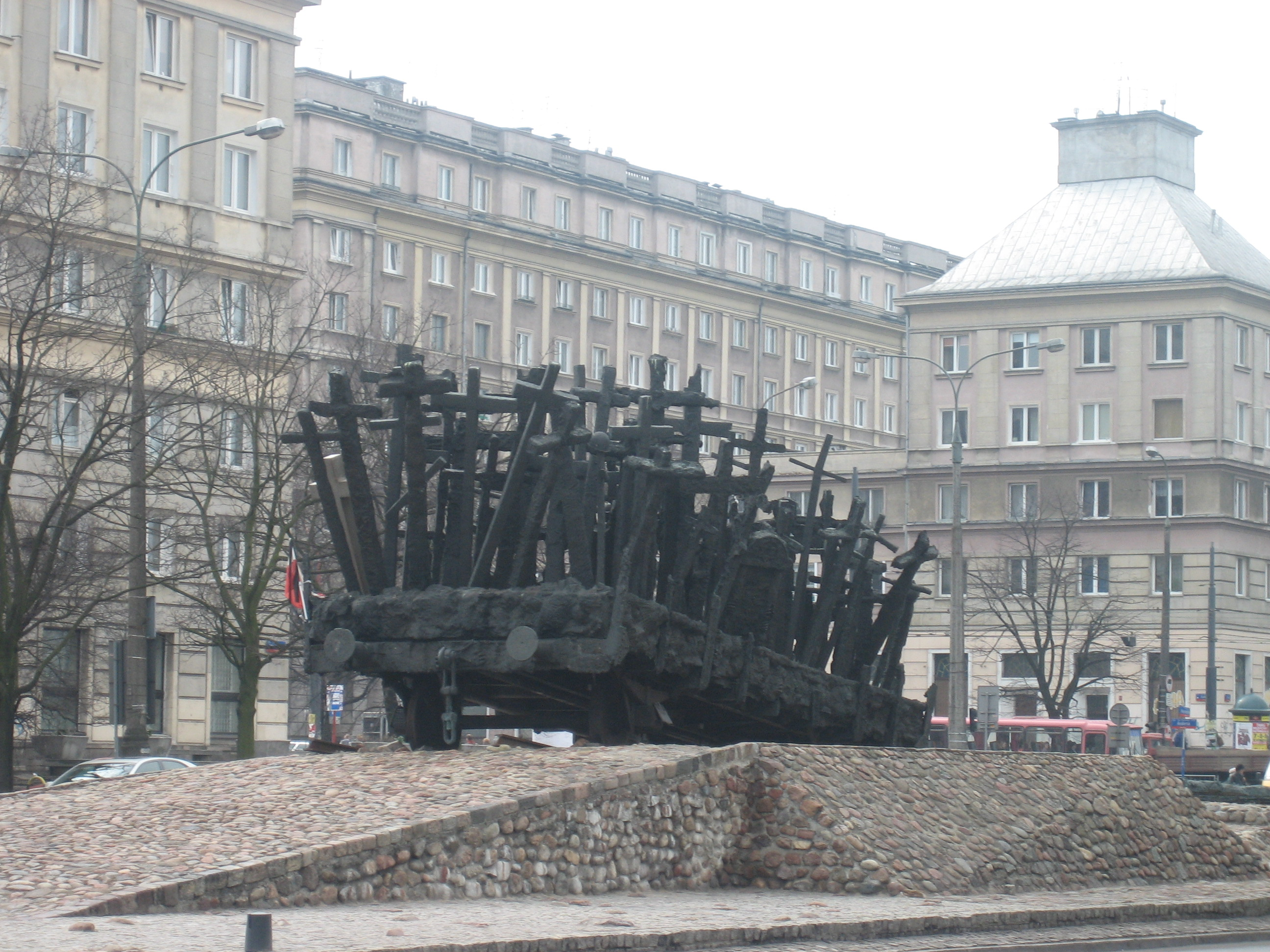 Momentum to the deported in Warsaw